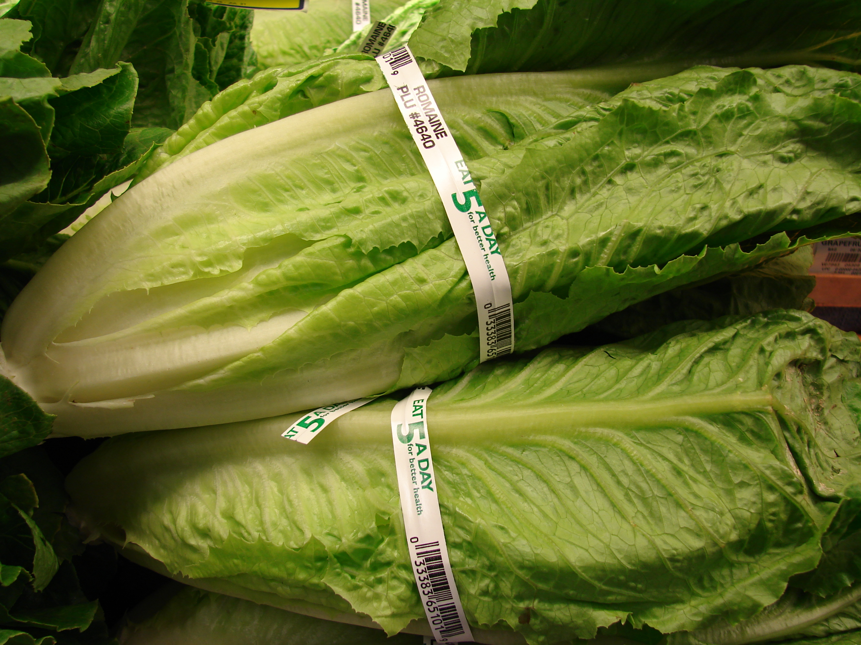 Lactuca sativa (Romaine variety). Location: Maui, Foodland Pukalani